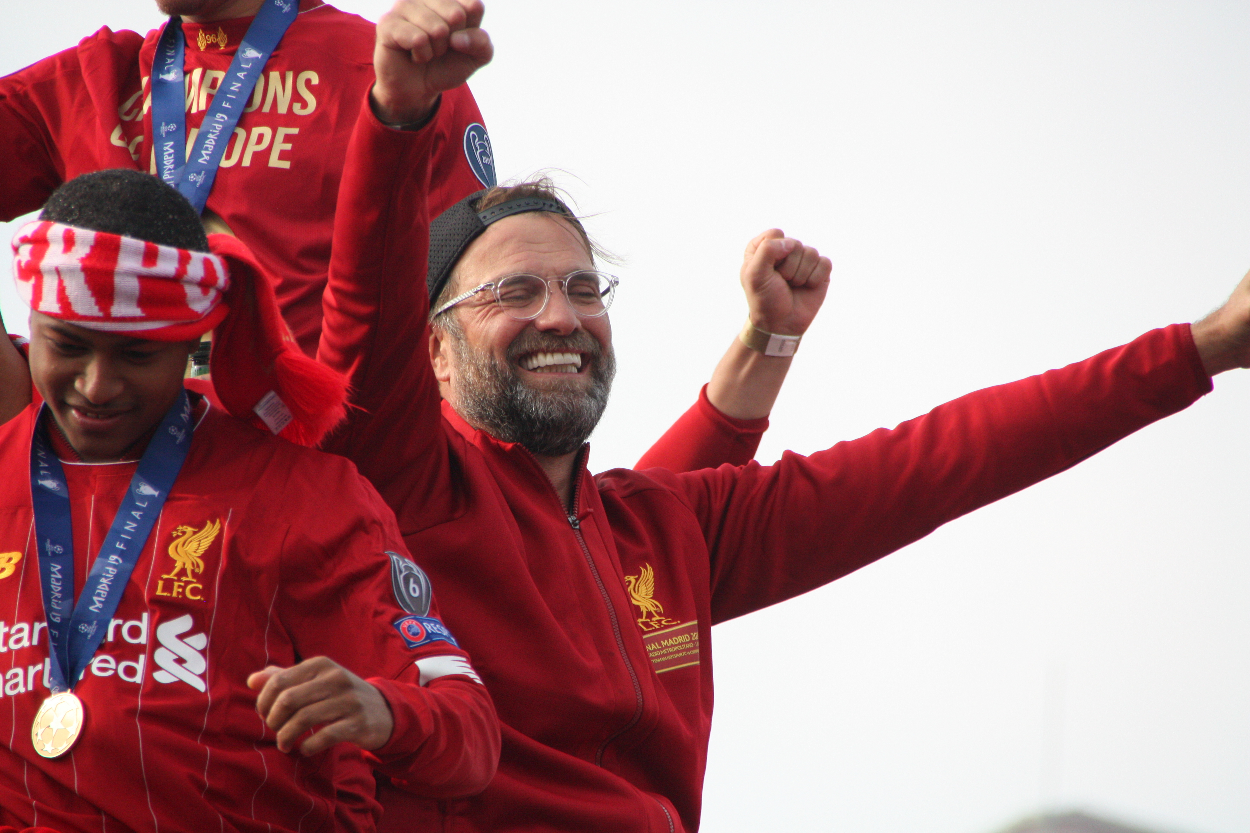 Jurgen Klopp during Liverpool's trophy parade after winning Champions League in 2019.